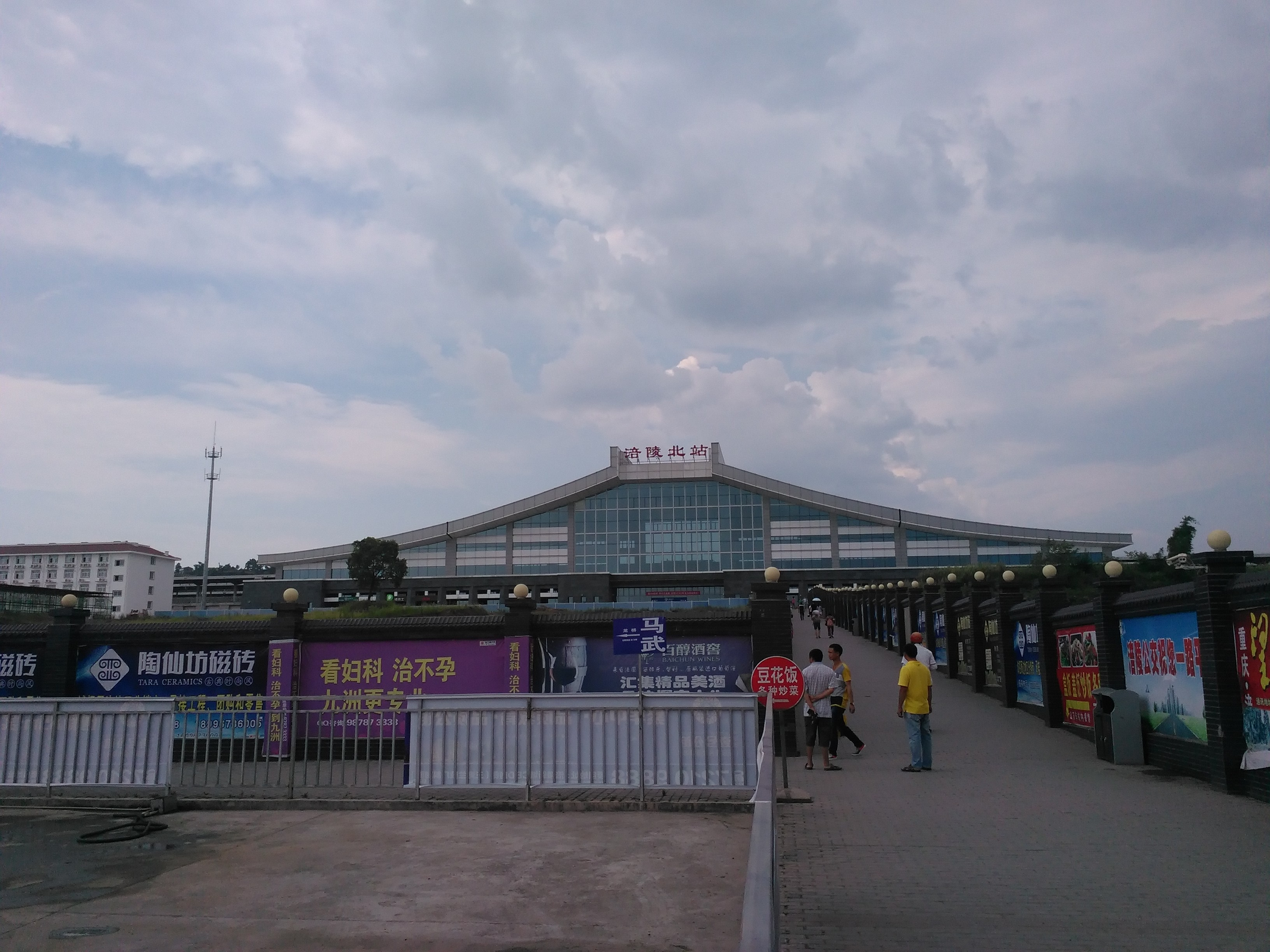 Fuling North Station